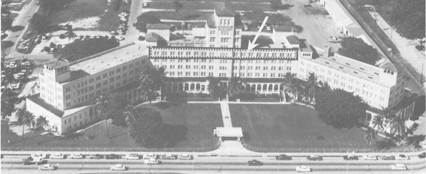 The image shows the building the Miami Hurricane Warning Office moved to on July 1, 1958. The arrow points to its location within the Aviation Building.